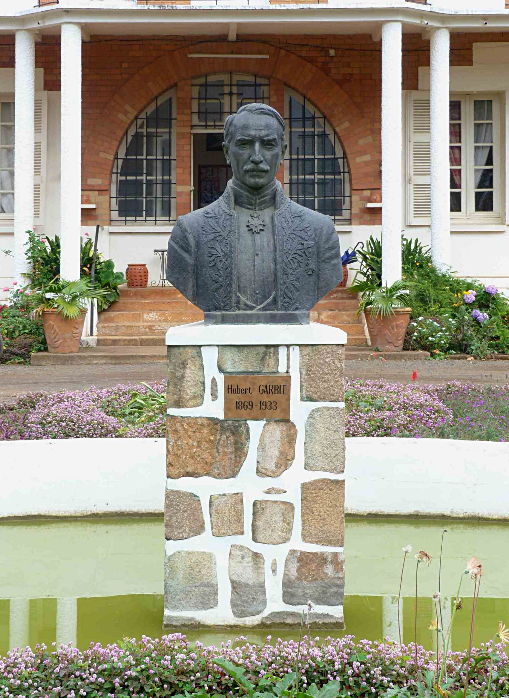 Bust of Hubert Garbit Social Residence in Antsirabe, province of Antananarivo, Madagascar. Rehabilitated in hotel since 2006 from a former retirement home founded in 1935.